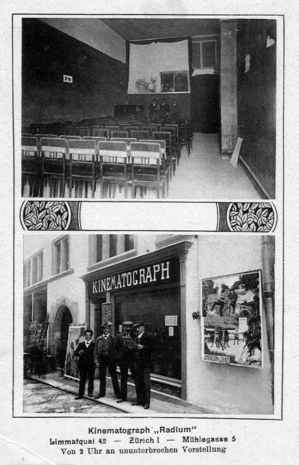 Kino Radium, Zürich, publicity postcard 1907